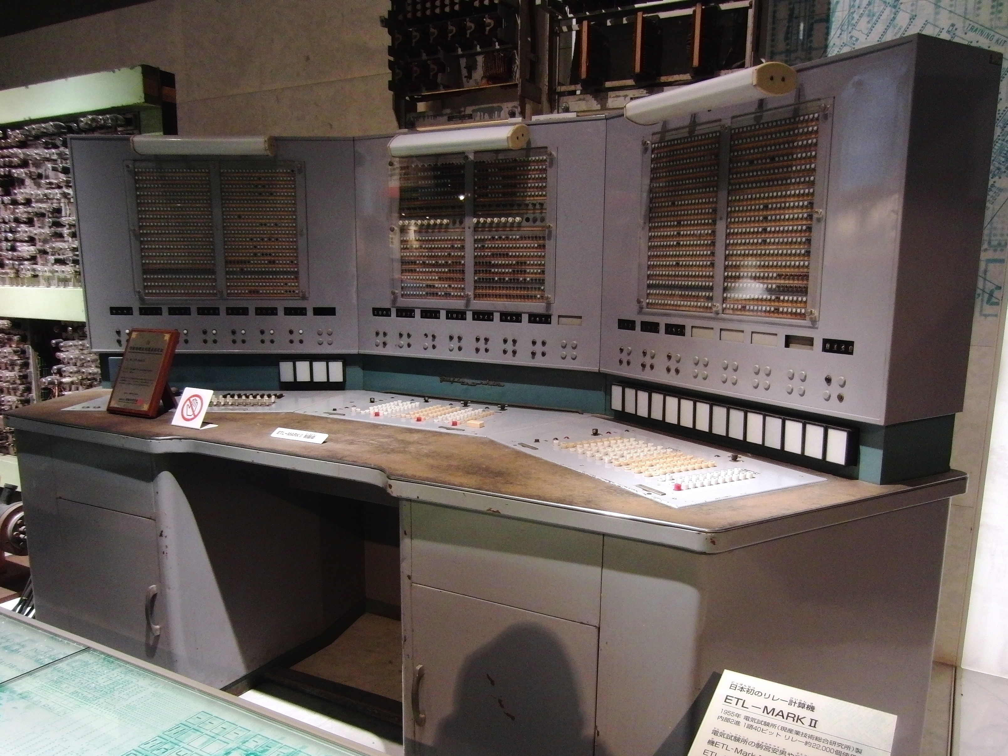 ETL Mark II. Japan's first large-scale relay calculator for practical use. Exhibit in the National Museum of Nature and Science, Tokyo, Japan.